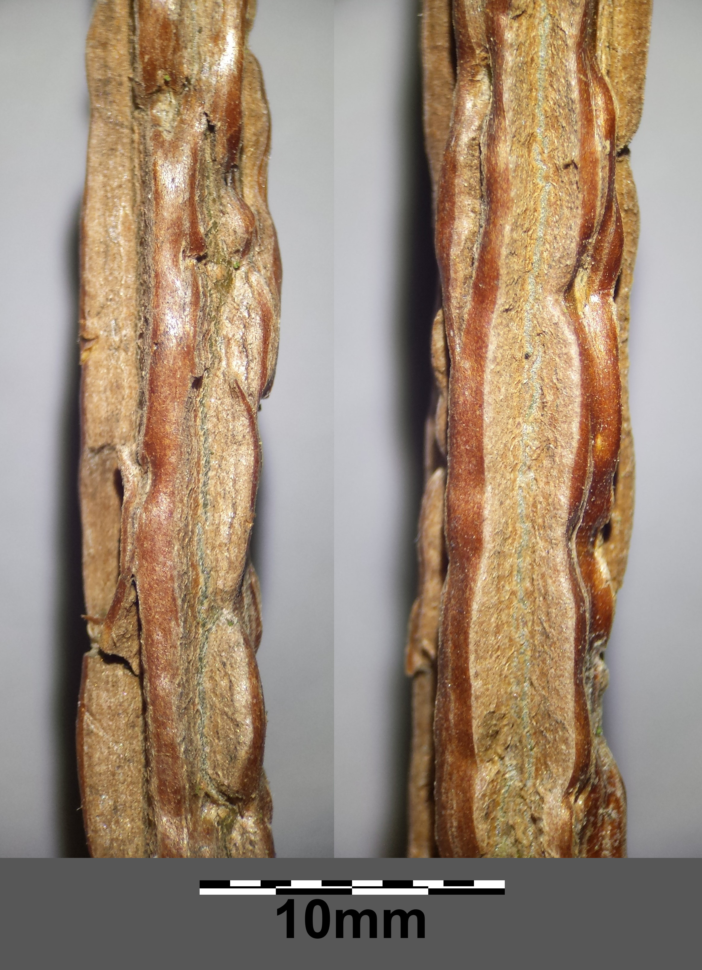 Branches with corky wings Taxonym: Ulmus minor (subsp. minor) ss Fischer et al. EfÖLS 2008 ISBN 978-3-85474-187-9 Location: near Niederhollabrunn, district Korneuburg, Lower Austria - ca. 350 m a.s.l. Habitat: shrubbery